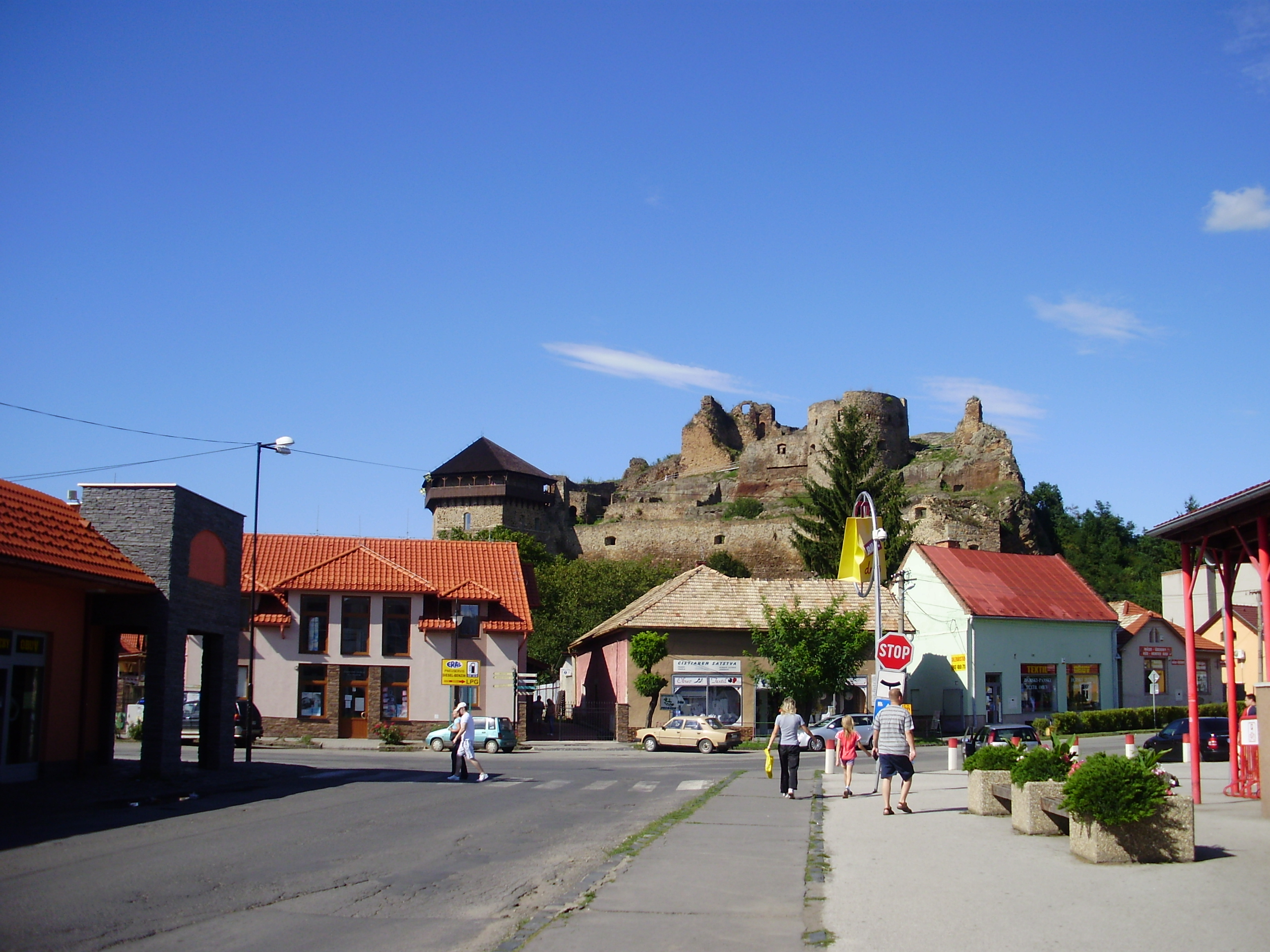 Filakovo castle